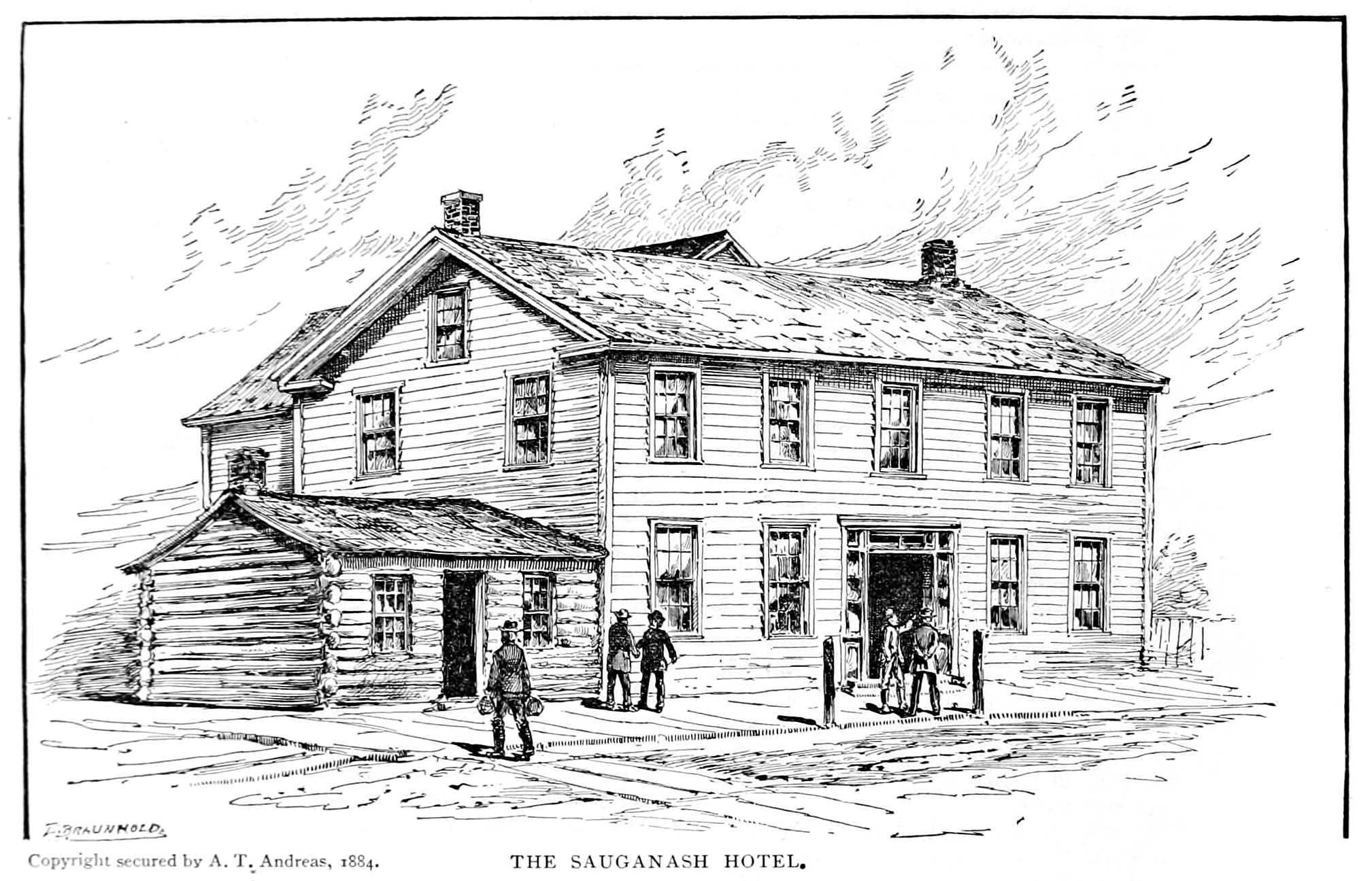 Sauganash Hotel, Chicago's first Hotel site of later Wigwam, as seen between 1830 and 1833.